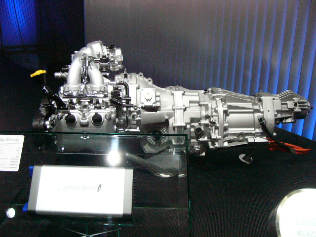 SUBARU B9 SCRAMBLER's Power Unit. "SSHEV" : Sequential Series Hybrid Electric Vehicle